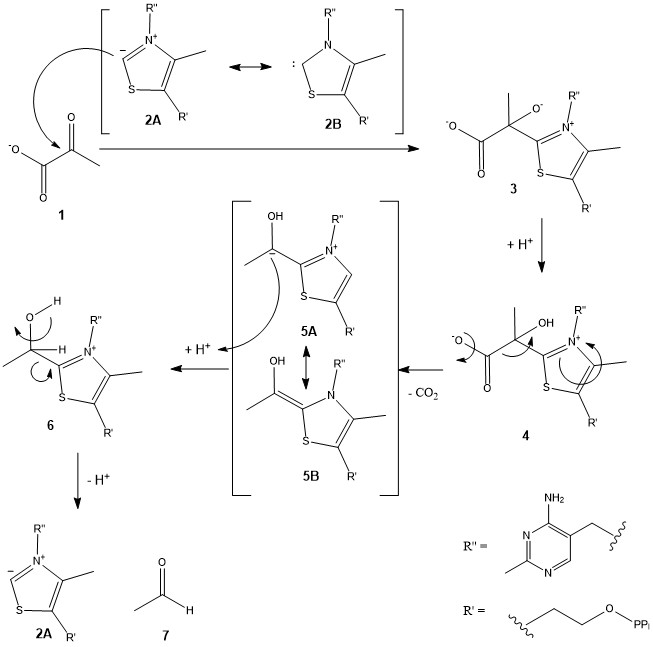 Pyruvate is being decarboxylated to acetaldehyde through catalyzation by pyruvate decarboxylase. The Cofactor is thiamine pyrophosphate.